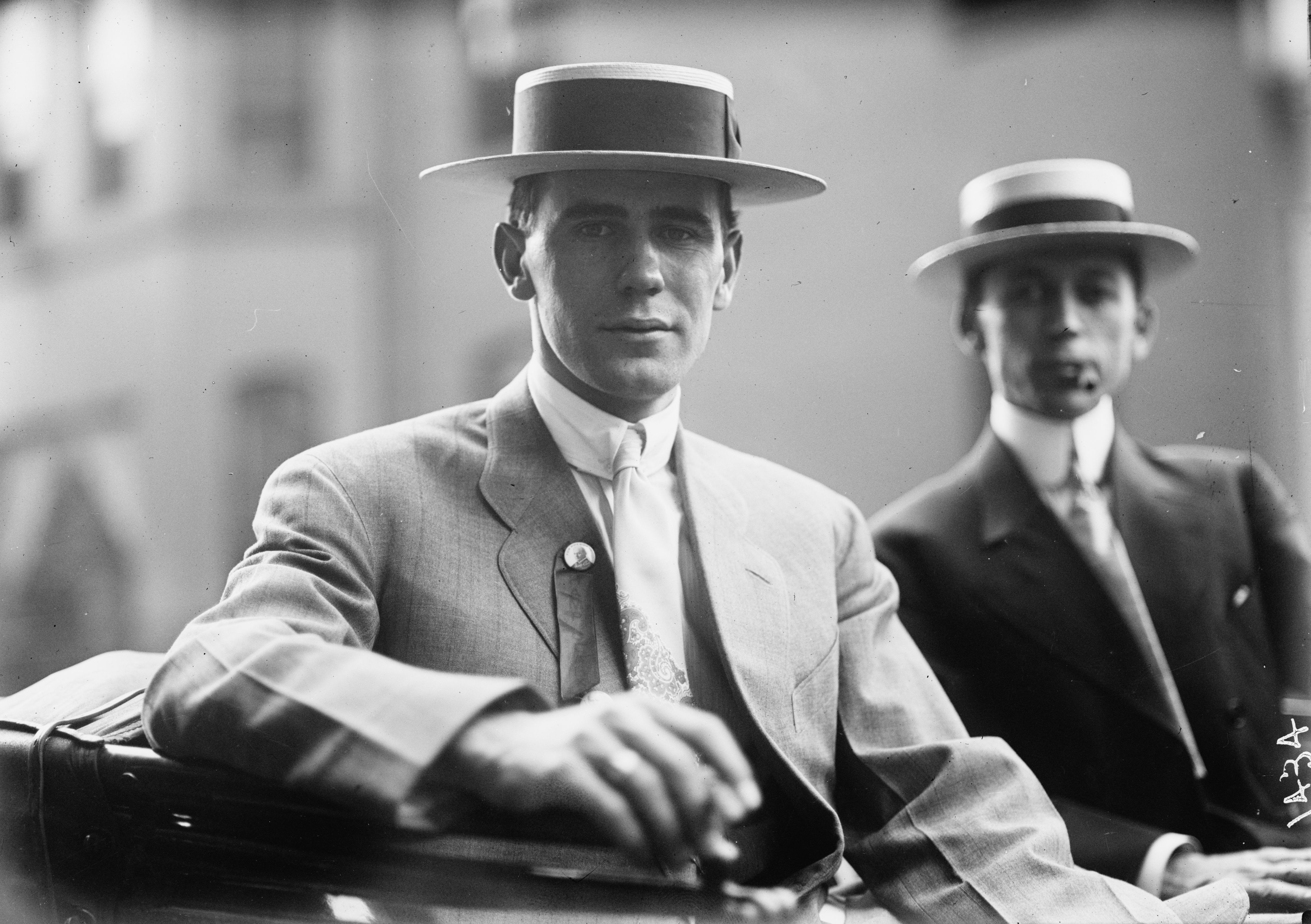 Joel Bennett Clark, better known as Bennett Champ Clark, at the Democratic National Convention in Baltimore, Maryland. His father, Champ Clark, was favored to win the Democratic presidential nomination, but lost to Woodrow Wilson. Bennett Champ Clark later became a Senator representing Missouri from 1933 to 1945, and a judge on the United States Court of Appeals for the District of Columbia Circuit until his death in 1954.